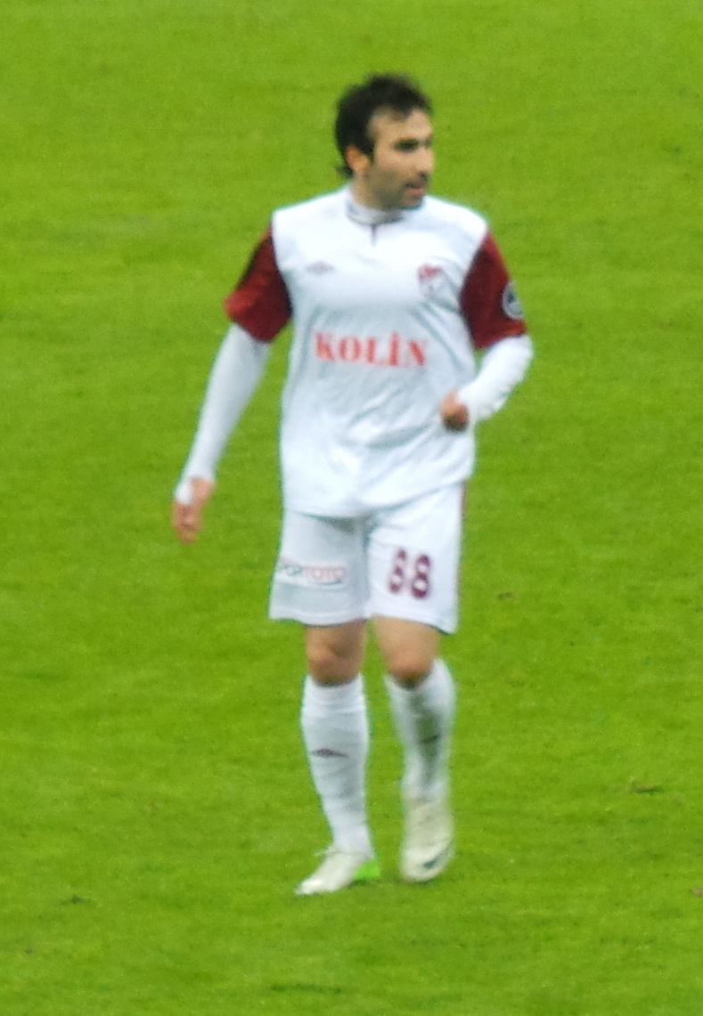 Volkan vs GS